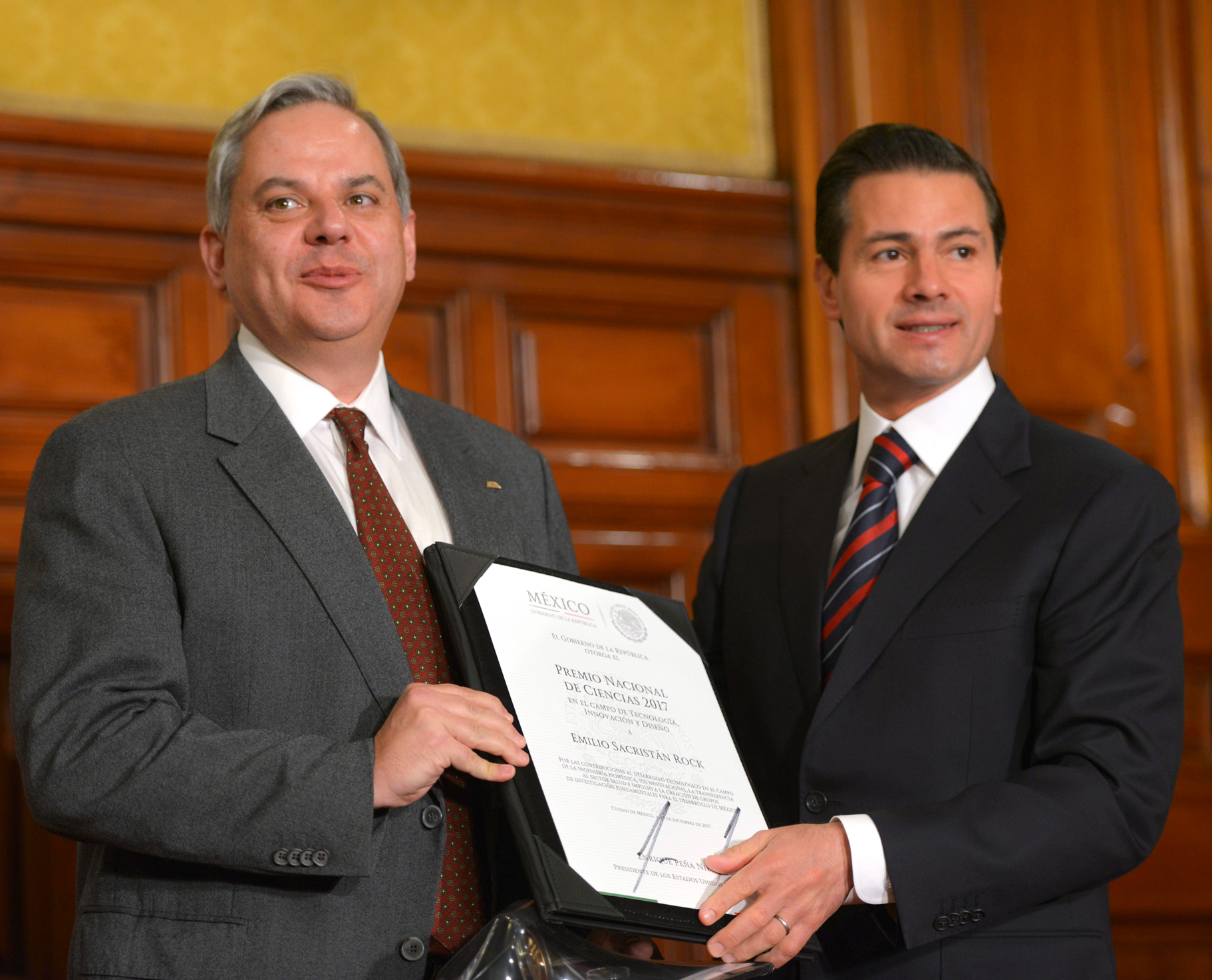 Emilio Sacristan Rock receiving Science National Prize 2017 from president Enrique Peña Nieto.